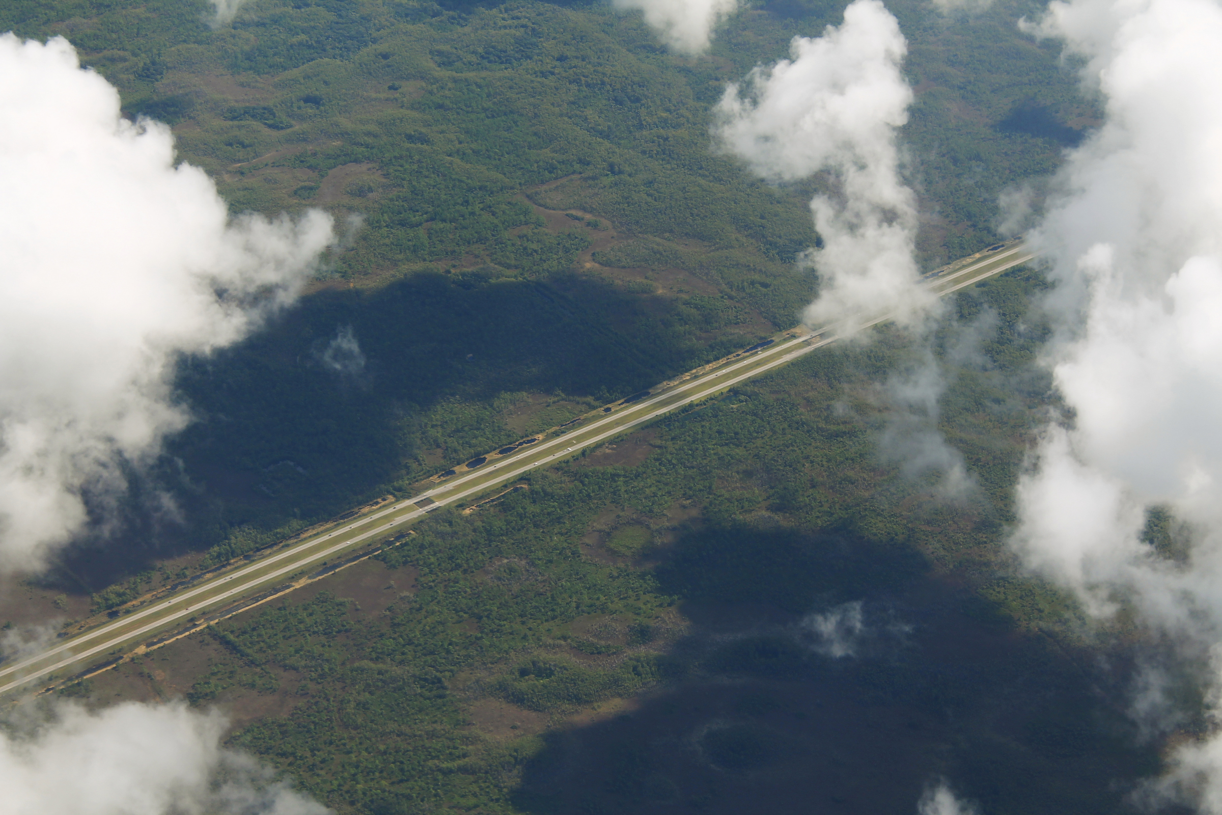 Aerial photograph of Alligator Alley (I-75 in south Florida) in August 2012